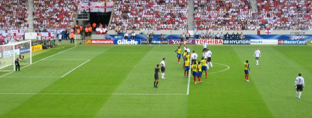 World Cup - Free kick. Beckham lines up the free kick at 60 minutes...World Cup - Free kick